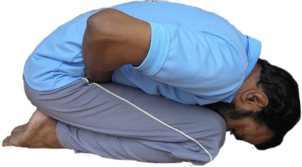 Symbol of yoga